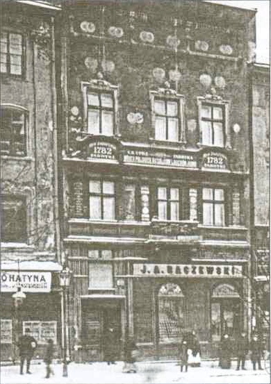 The Mazanczow House of the Baczewski family on the main market square Nr. 31 of Lviv.